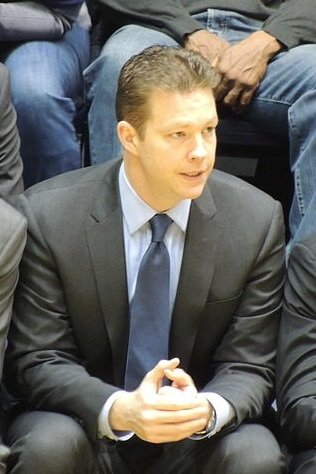 Basketball coach Chris Mooney in February, 2013